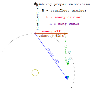 A starfleet battle-cruiser drops out of hyperspace in the orbital plane of a ringworld, traveling at 1 ly/ty radially away from the ringworld's star. An enemy cruiser drops out of hyperspace nearby at the same time, traveling 1 ly/ty in the rotation-direction of the ringworld's orbit, and in a direction perpendicular to the starfleet cruiser's radial-trajectory . What is the proper-velocity (magnitude and direction) of the enemy cruiser relative to the starfleet ship?